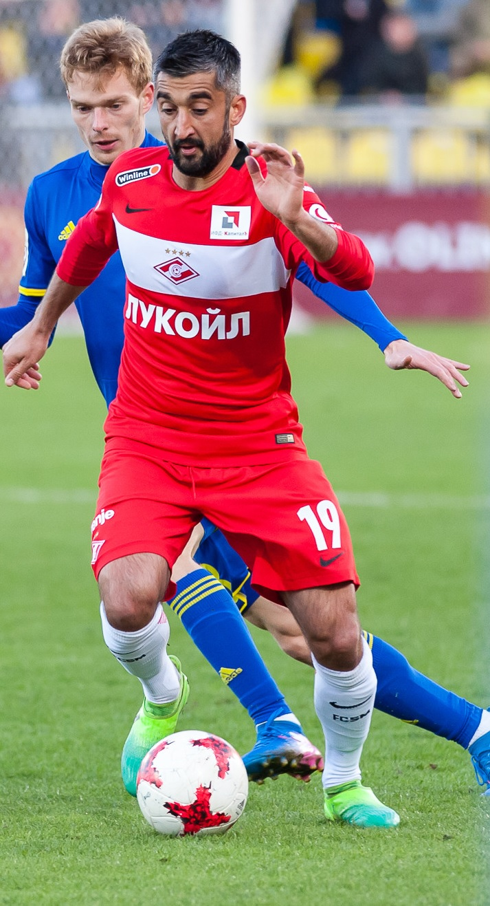 Aleksandr Samedov with FC Spartak Moscow in a game against FC Rostov.